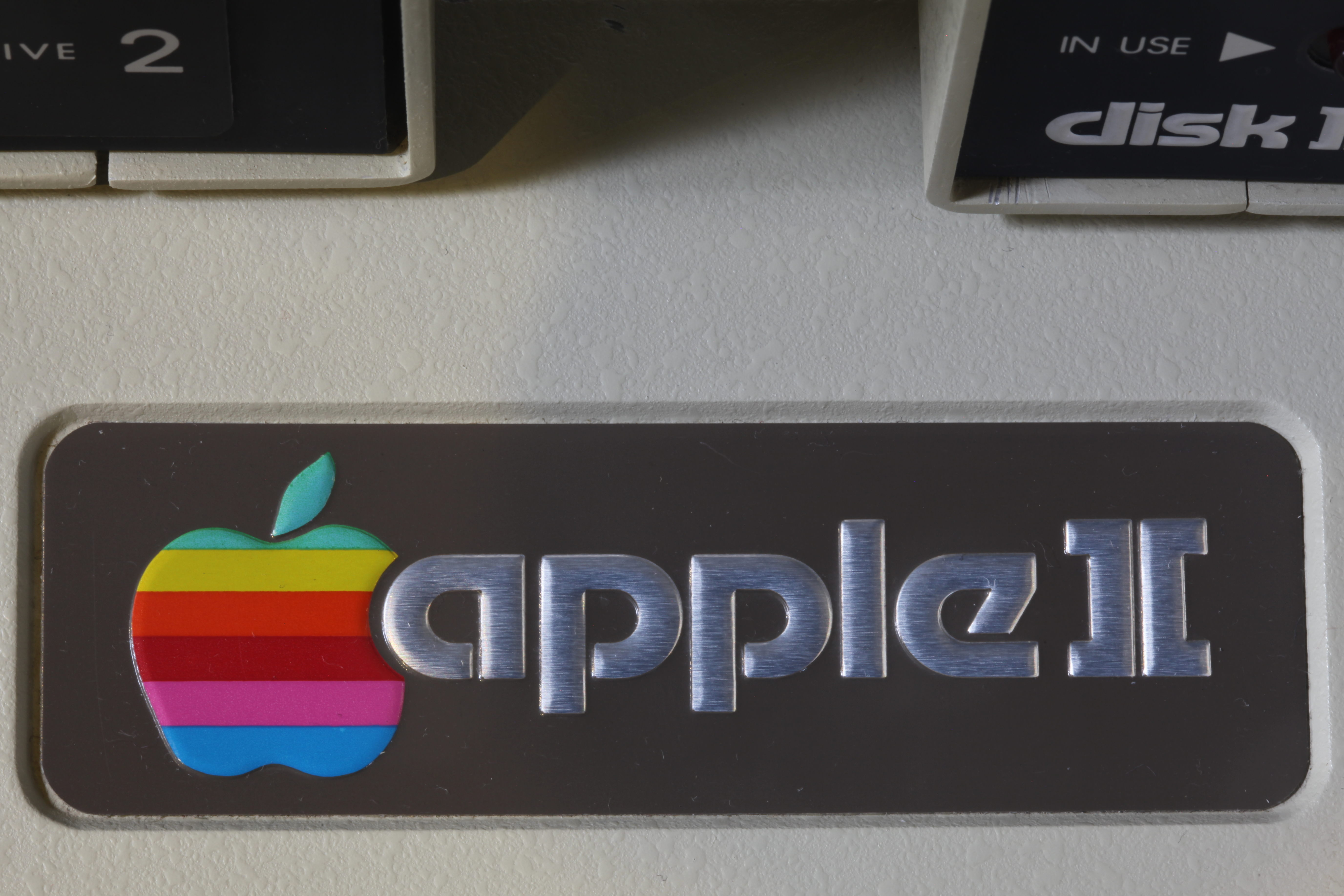 Apple II computer. On display at the Musée Bolo, EPFL, Lausanne.